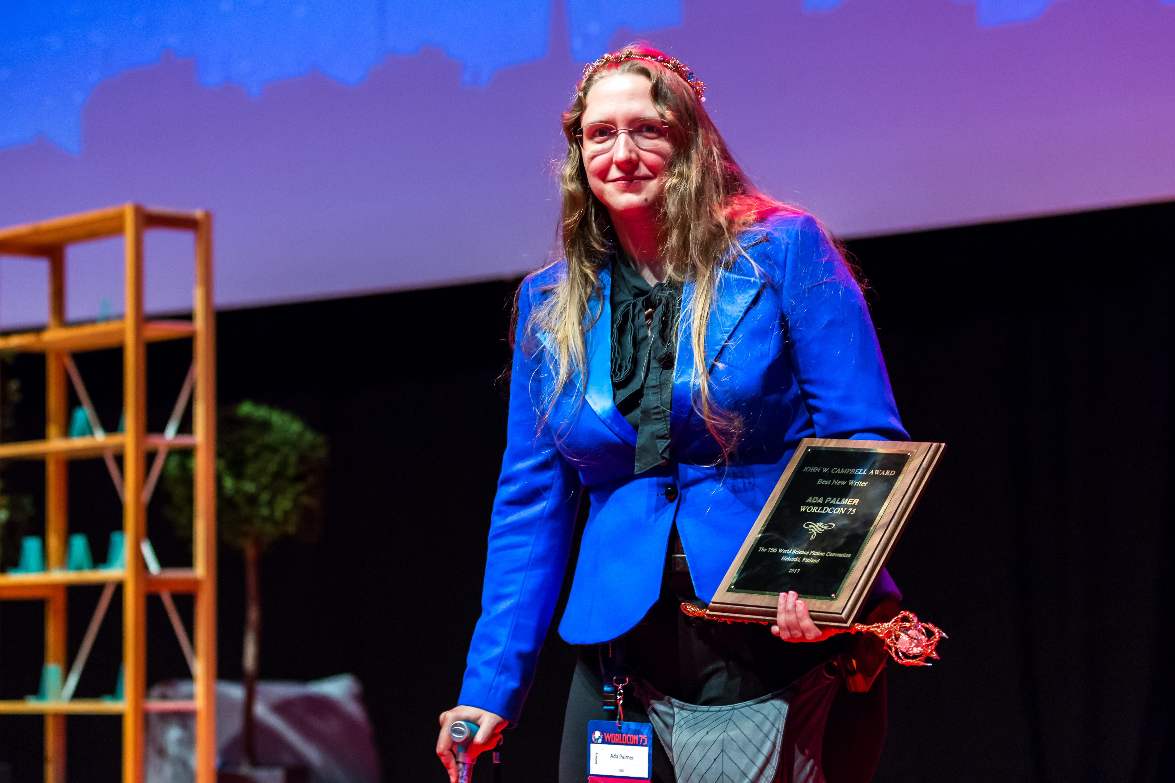 Ada Palmer at the Hugo Award Ceremony, at Worldcon 75 in Helsinki 2017.